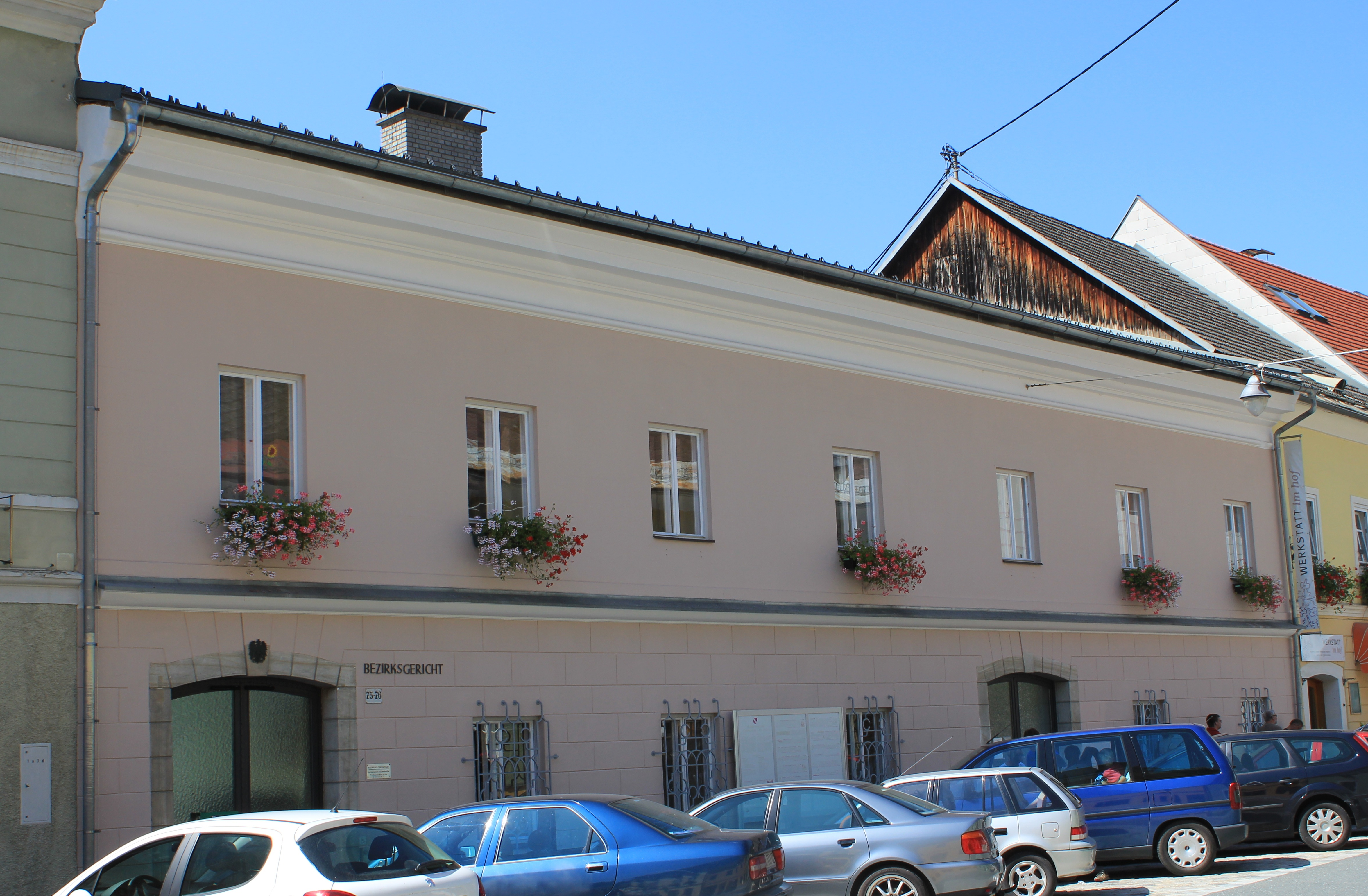 District-court in Eisenkappel-Vellach